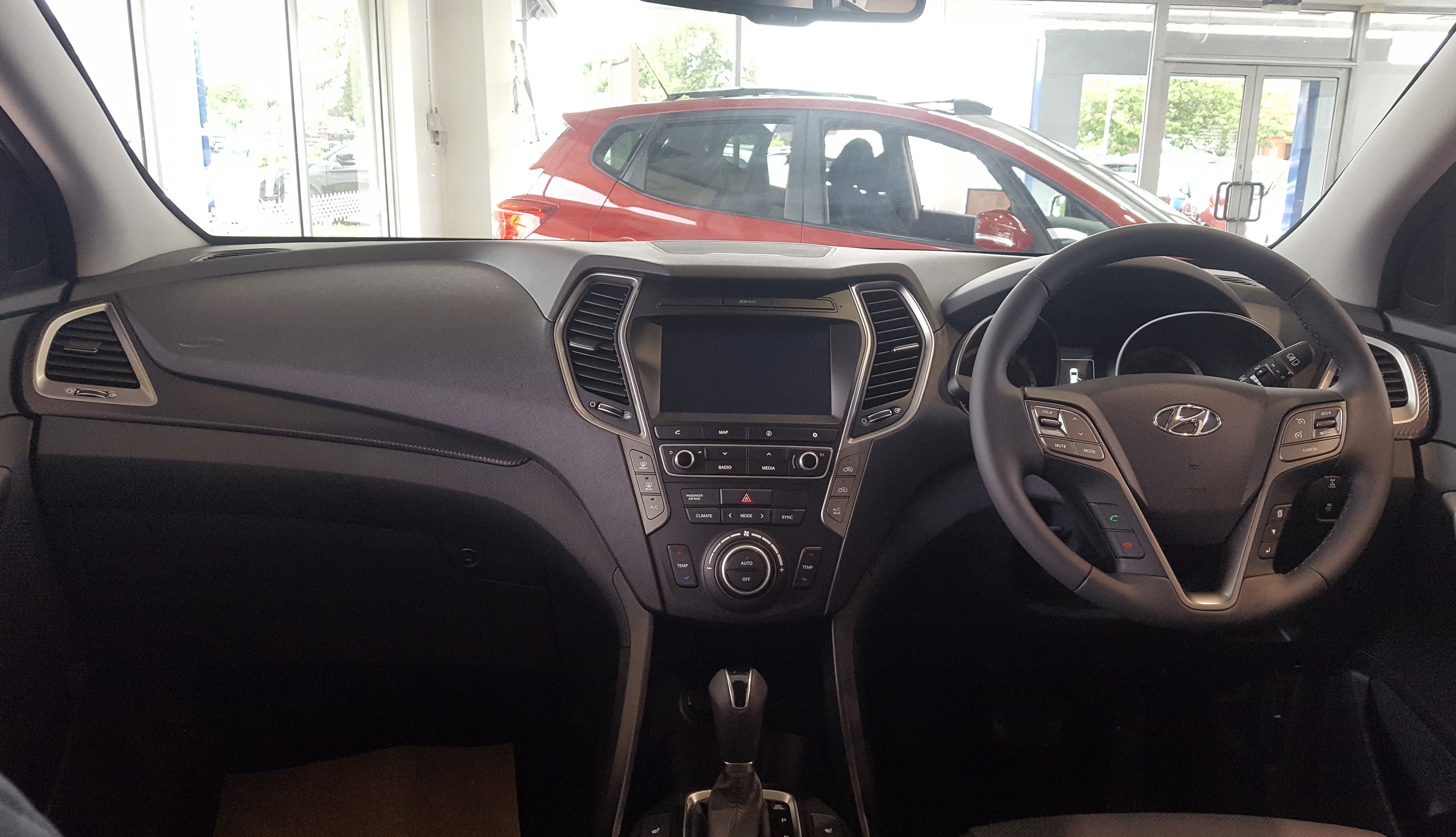 2018 Hyundai Santa Fe CRDi 4WD Interior Taken in Warwick